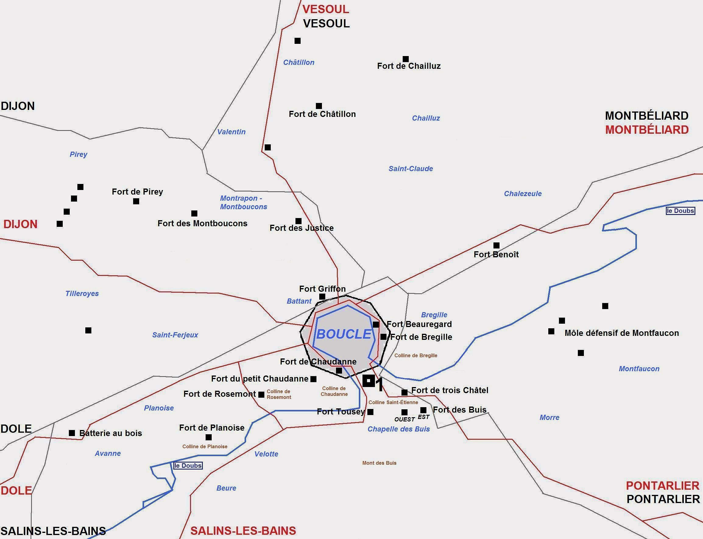 Map of the principal fortification of Besançon (Doubs, France)